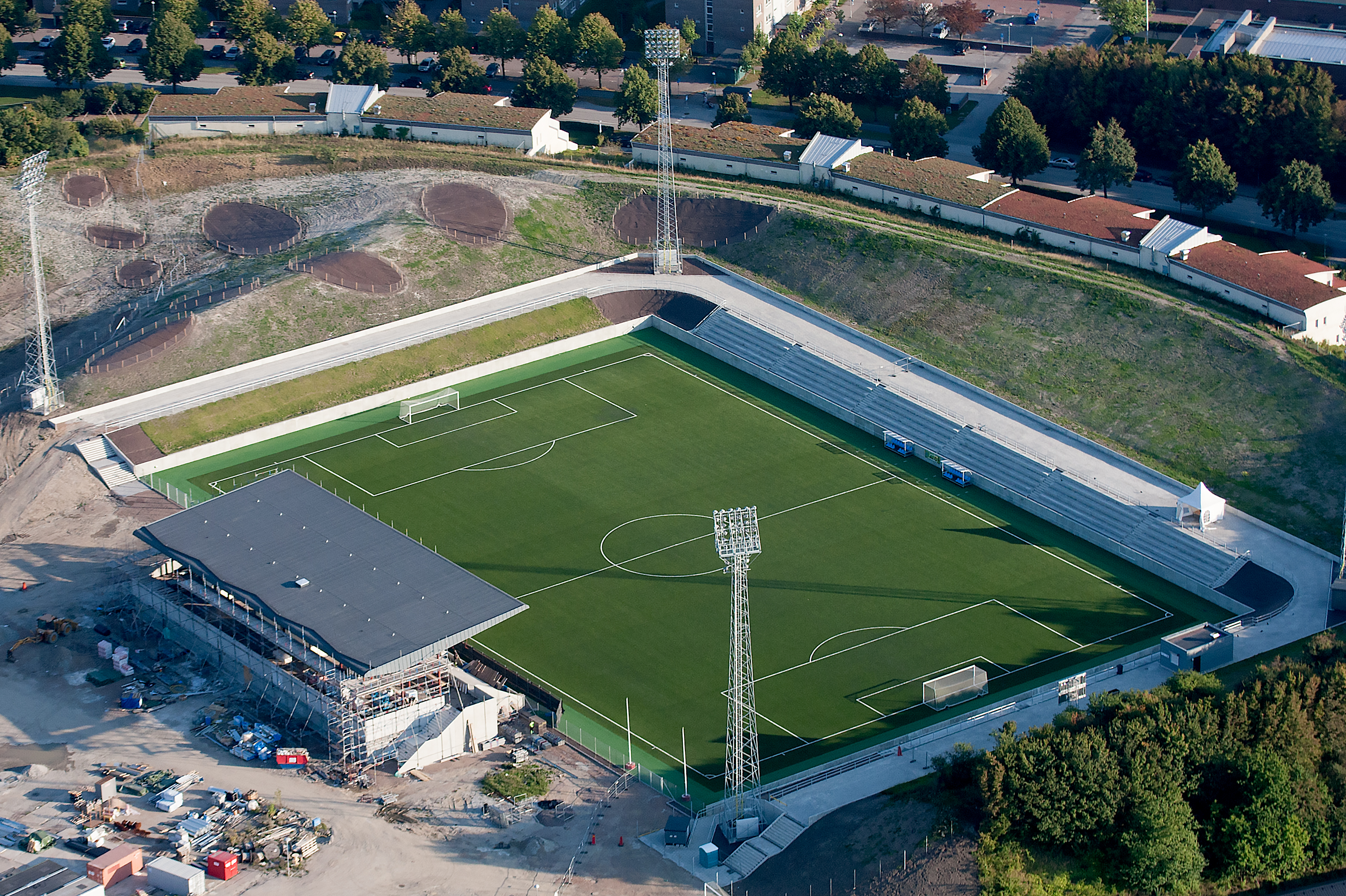 Center court at sports arena Klostergårdens IP in Lund, Sweden.